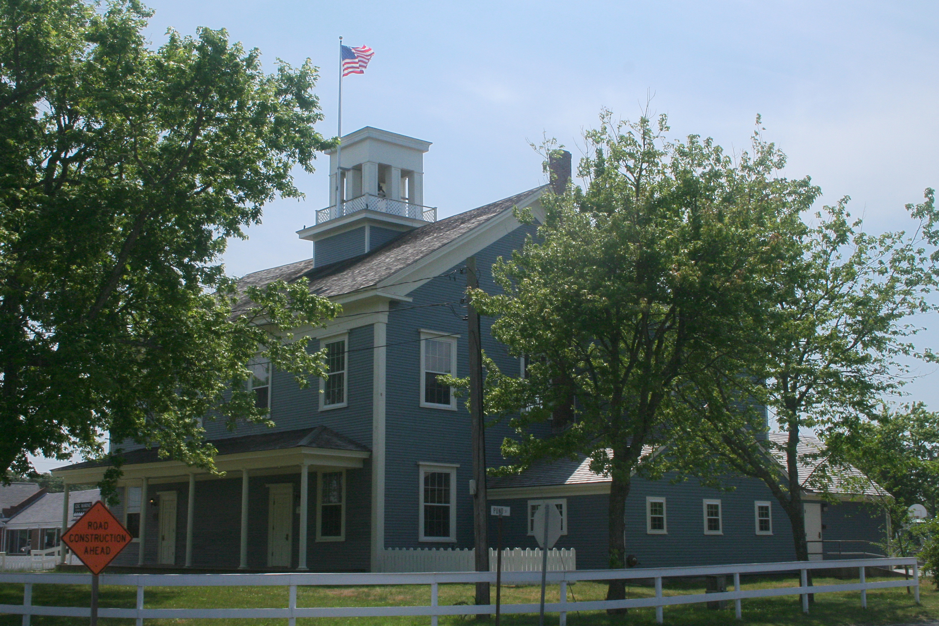 West Dennis Graded School, Dennis, Massachusetts (not to be confused with the West Schoolhouse in Dennis).